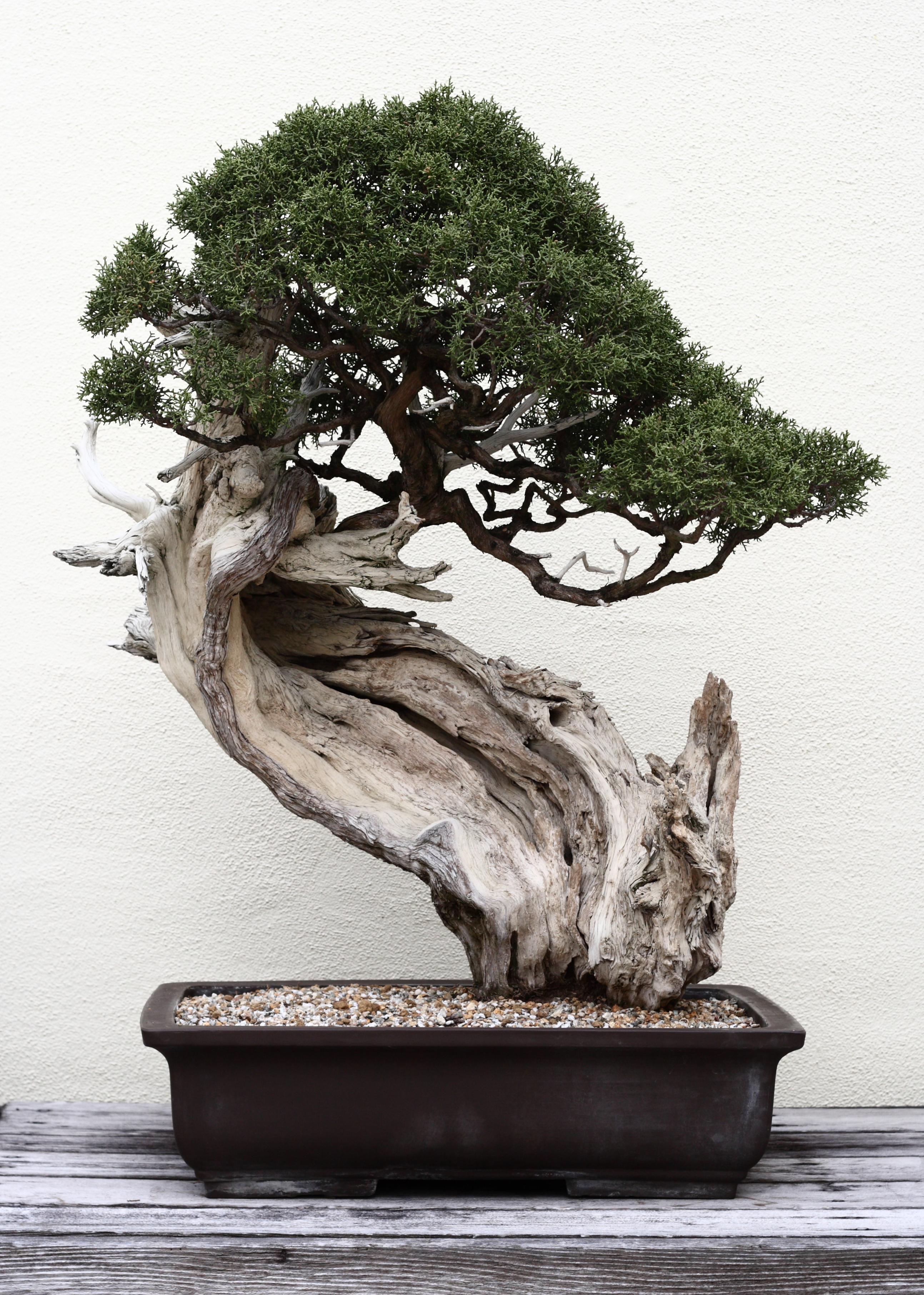 A California Juniper (Juniperus californica) bonsai, North American Collection 276, on display at the National Bonsai & Penjing Museum at the United States National Arboretum. According to the tree's display placard, it has been in training since 1964. It was donated by Harry Hirao.